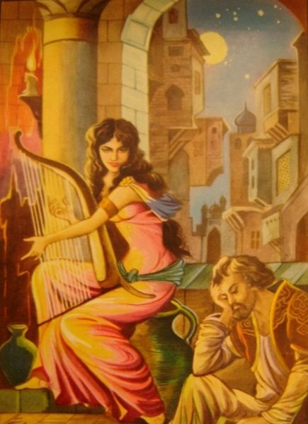 Cover of the first poet book of Hafez published in Iran, His homeland.